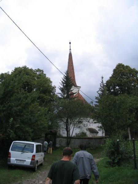 The Unitarian church of Siménfalva (Şimoneşti ), Harghita County, Transylvania, Romania